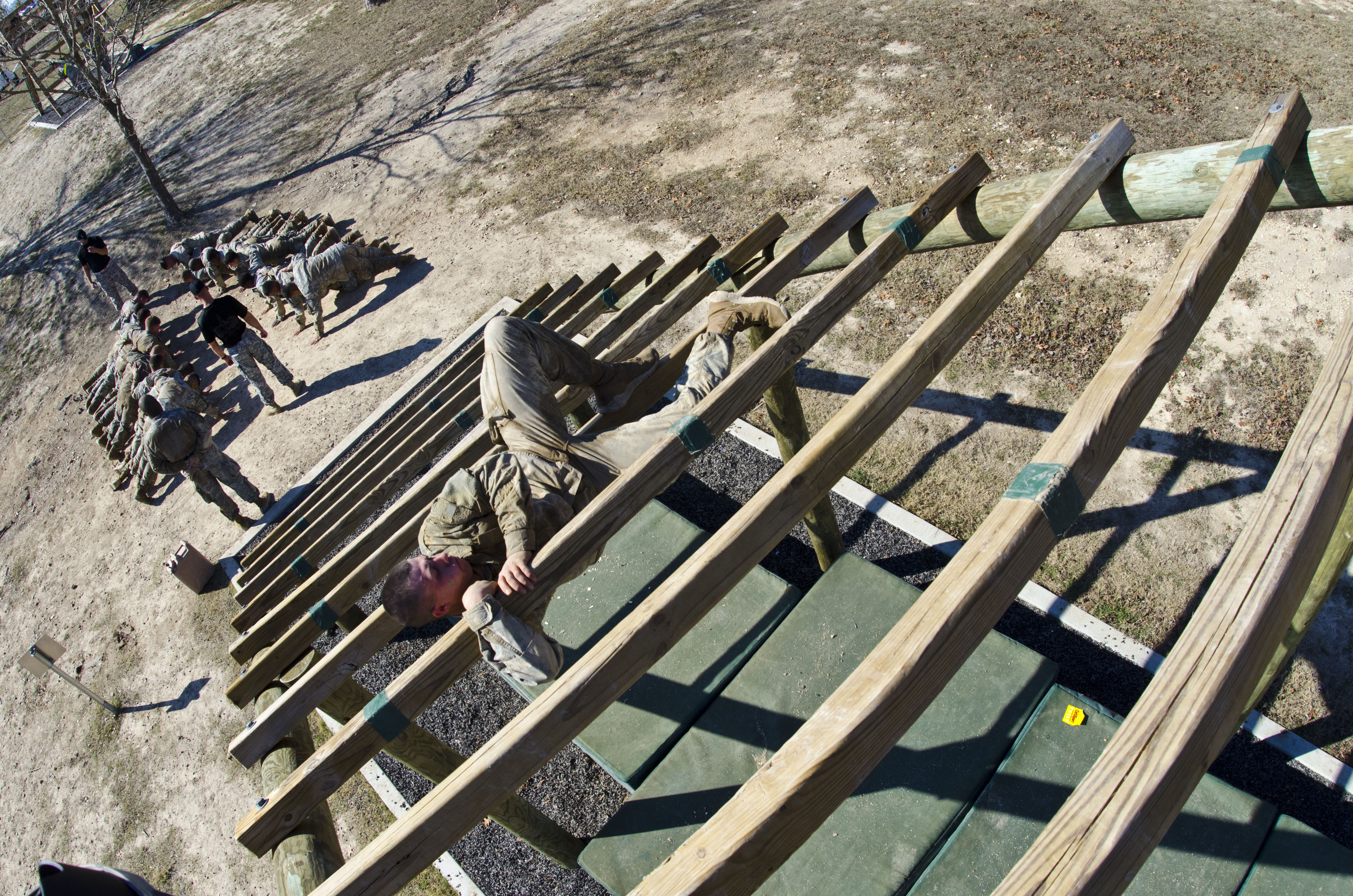 A student at the Fort Hood Air Assault attempt to completed an obstacle at Fort Hood, Texas, Feb 1. Day zero challenges students mentally and physically before starting the school. (Photo by Staff Sgt. Terrance D. Rhodes, 11th Public Affairs Detachment) Unit: 11th Public Affairs Detachment